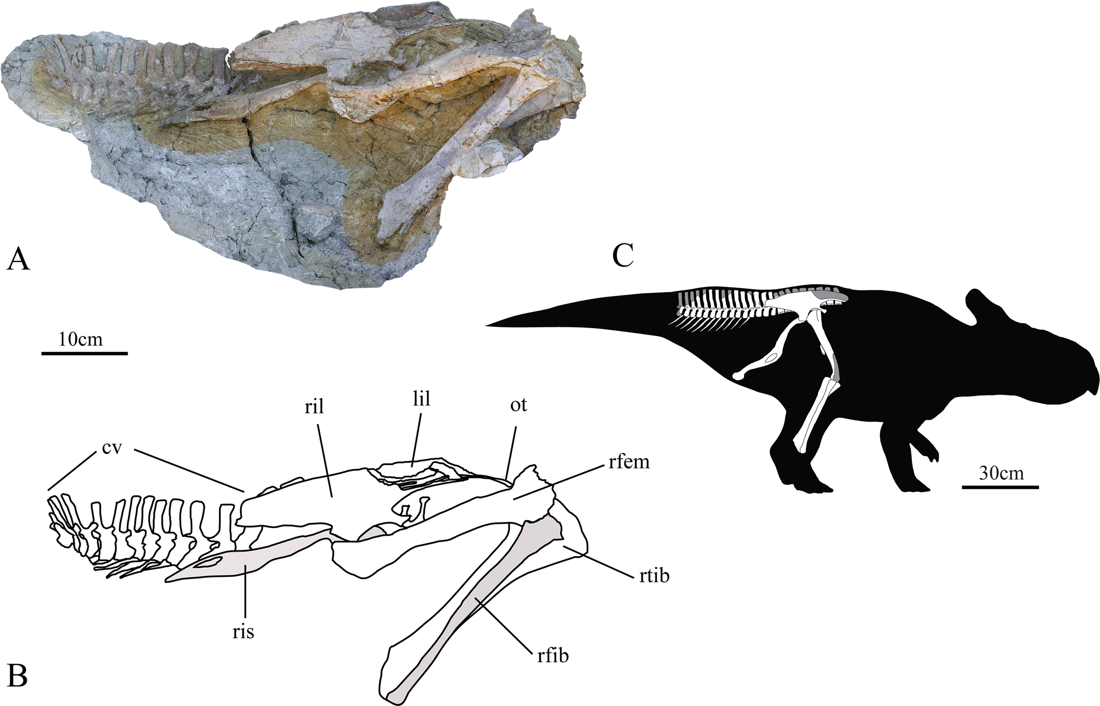 Holotype of Ischioceratops zhuchengensis (ZCDM V0016) in right lateral view. Photograph (A), drawing (B) and reconstruction of holotype individual (C). Abbreviations: cv, caudal vertebrae; lil, left ilium; ot, ossified tendons; rfem, right femur; rfib, right fibula; ril, right ilium; ris, right ischium; rtib, right tibia.